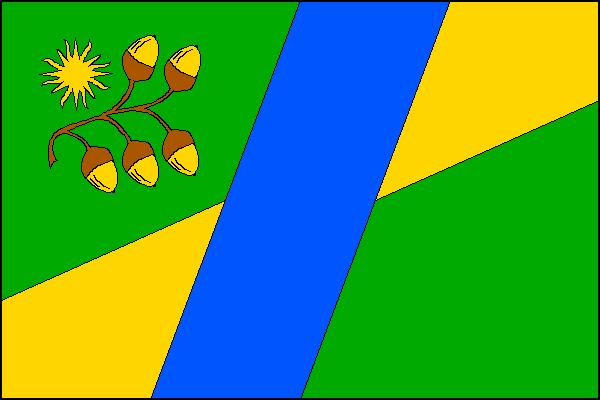 Municipal flag of Rohatec village, Hodonín District, Czech Republic.